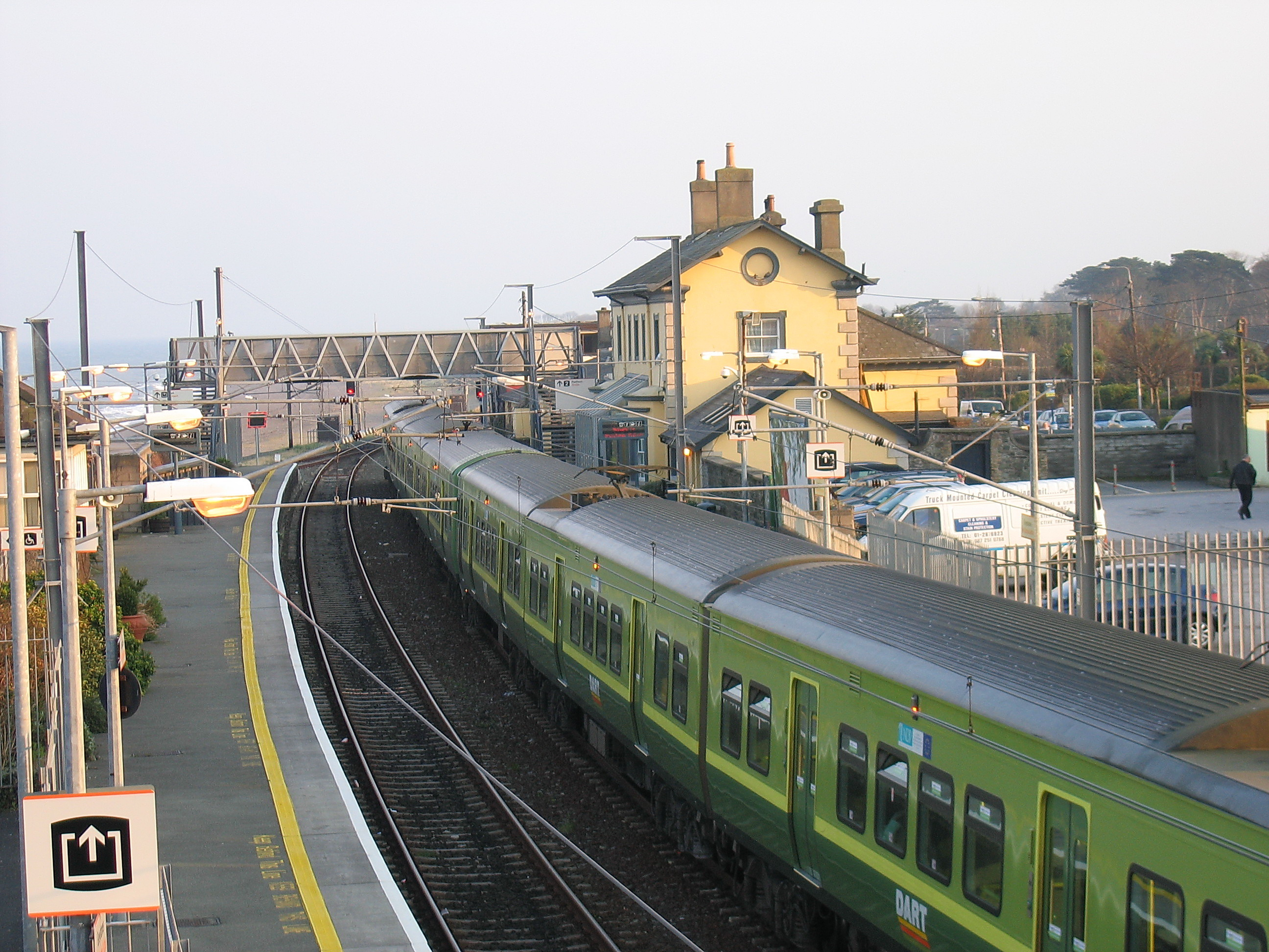 A DART train in Greystones, County Wicklow, near to Na Clocha Liatha, Redford and Ballynerrin, Wicklow, Ireland. The line is not electrified past Greystones so the DART must turn back toward Howth or Malahide.